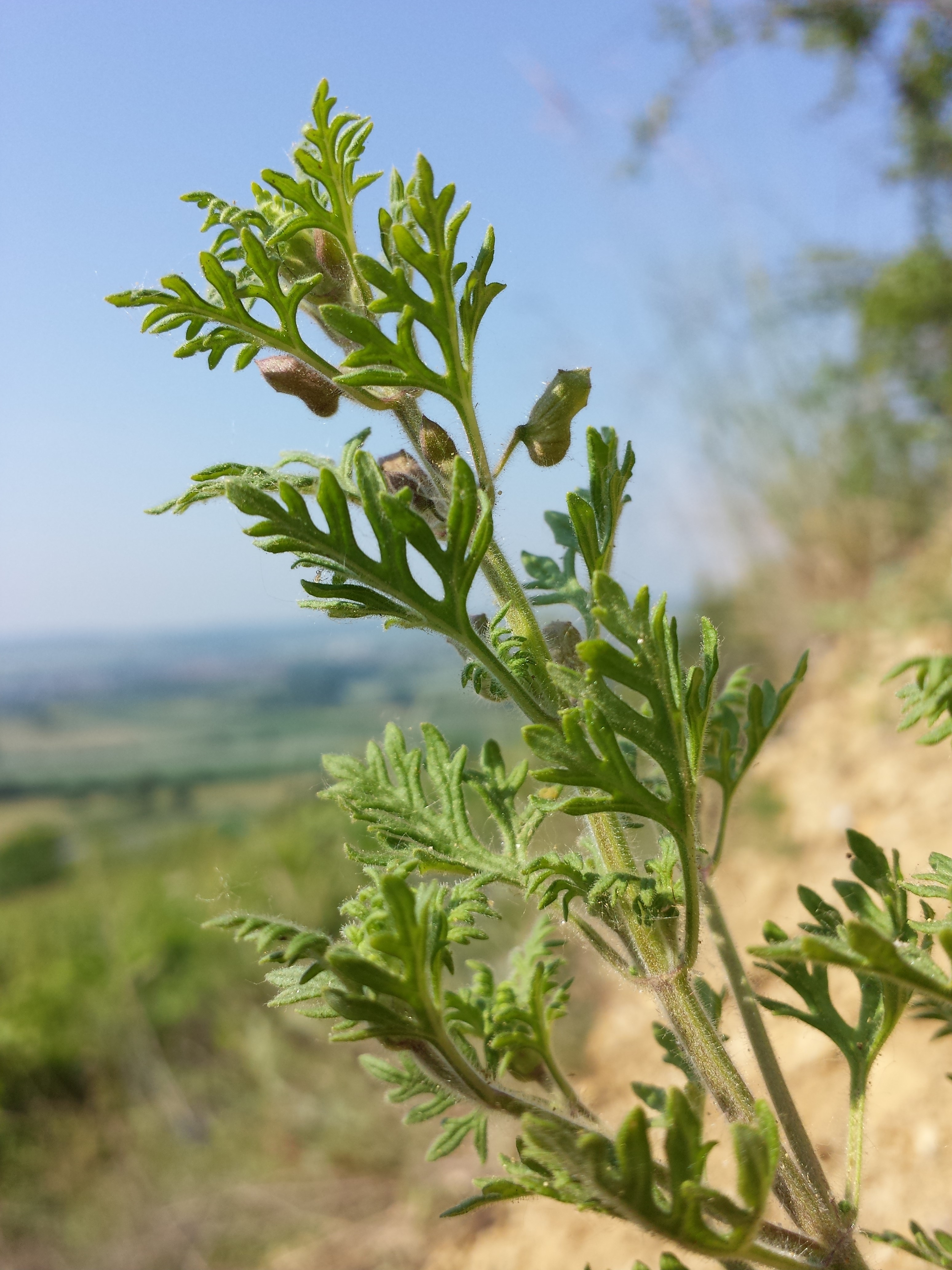 Inflorescence Taxonym: Teucrium botrys ss Fischer et al. EfÖLS 2008 ISBN 978-3-85474-187-9 Location: Kranberg bei Ziersdorf, district Hollabrunn, Lower Austria - ca. 350 m a.s.l. Habitat: rubble slope